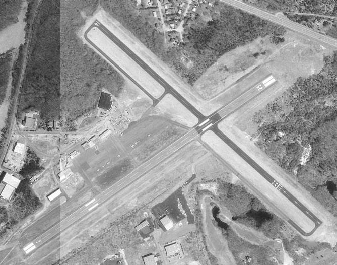 Aerial photo of Westerly State Airport in Rhode Island, United States.